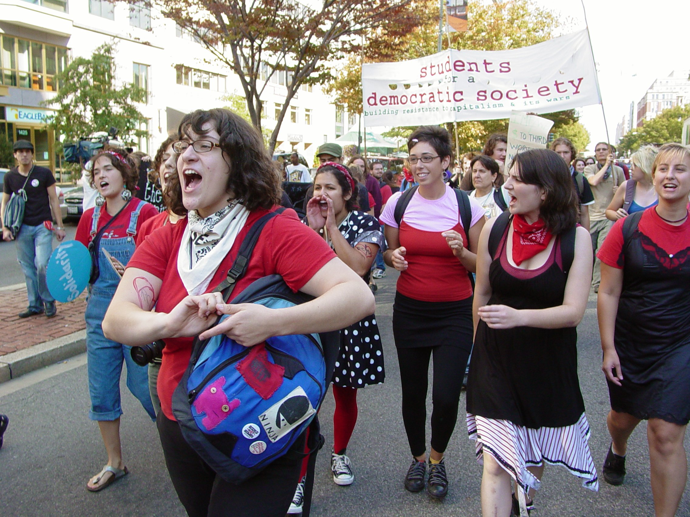 Radical cheerleaders in the streets of downtown Washington, DC during the October Rebellion protests against the World Bank and IMF in Washington, DC.